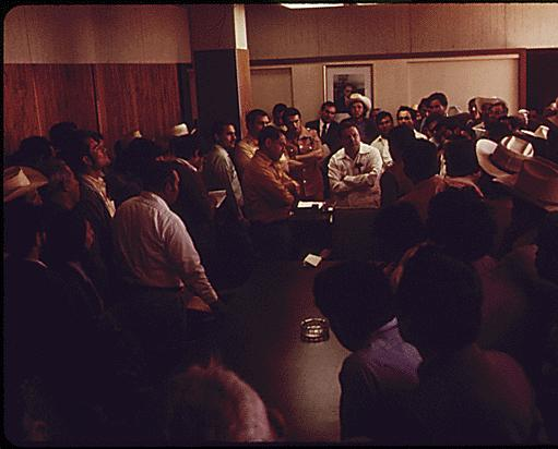 Files produced by Charles O'Rear on behalf of the United States Environmental Protection Agency.